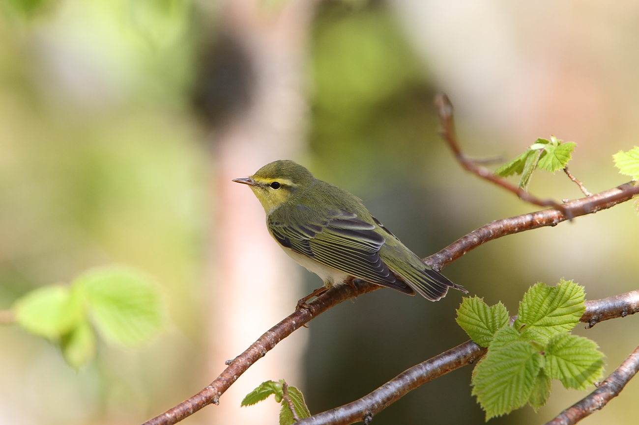 Wood WarblerLatina: Phylloscopus sibilatrix